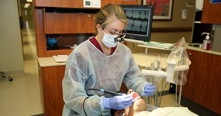 Dental Hygienist Prophy